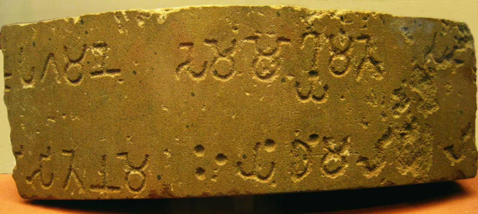 A fragment of an inscription in the Asokan Brahmi script. The inscription records Asoka's Sixth Edict. This particular fragment is thought to have originally come from Meerut, and is dated to 238 BC. The original is in the British museum, this is a photo taken by me.